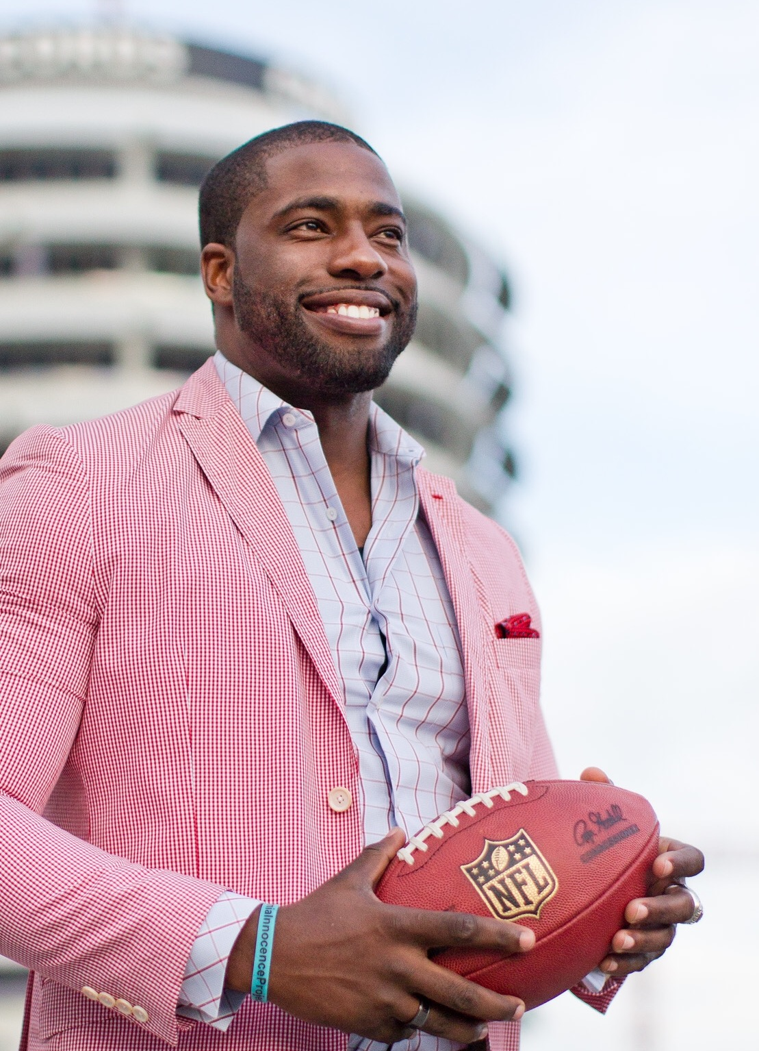 Photo of American football player Brian Banks after exoneration